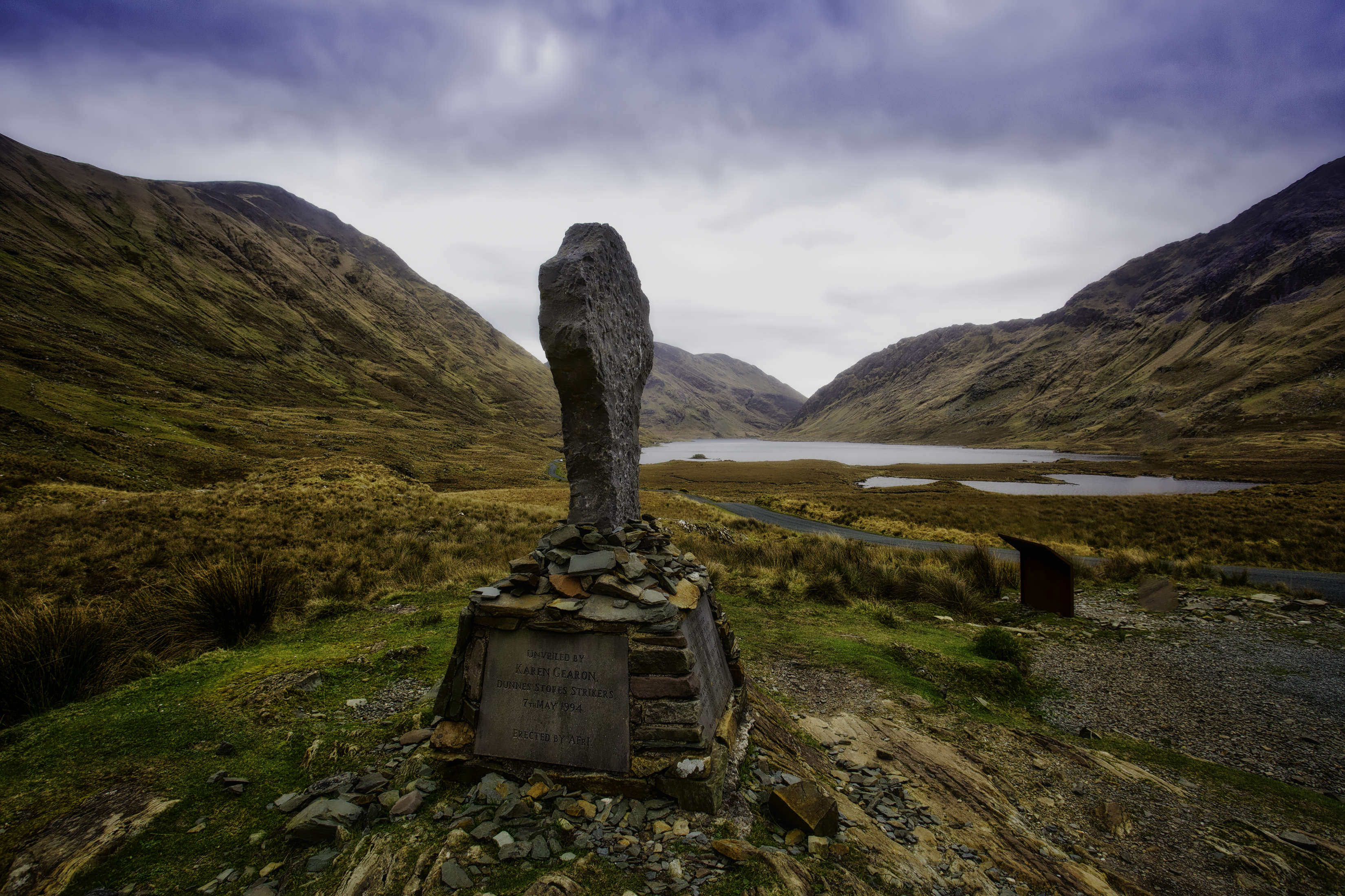 Famine Memorial, Doo Lough, County Mayo. Ireland. A simple cross marks the location in Doo Lough where many, trying to escape the famine, perished having not found the support they sought. On 31 March 1849 during the Great Famine, many starving people were forced to walk twenty miles or more in bad weather from Louisburgh to Delphi Lodge to attend an inspection and get famine relief. It is supposed that more than 400 people died at Doo Lough on the journey.